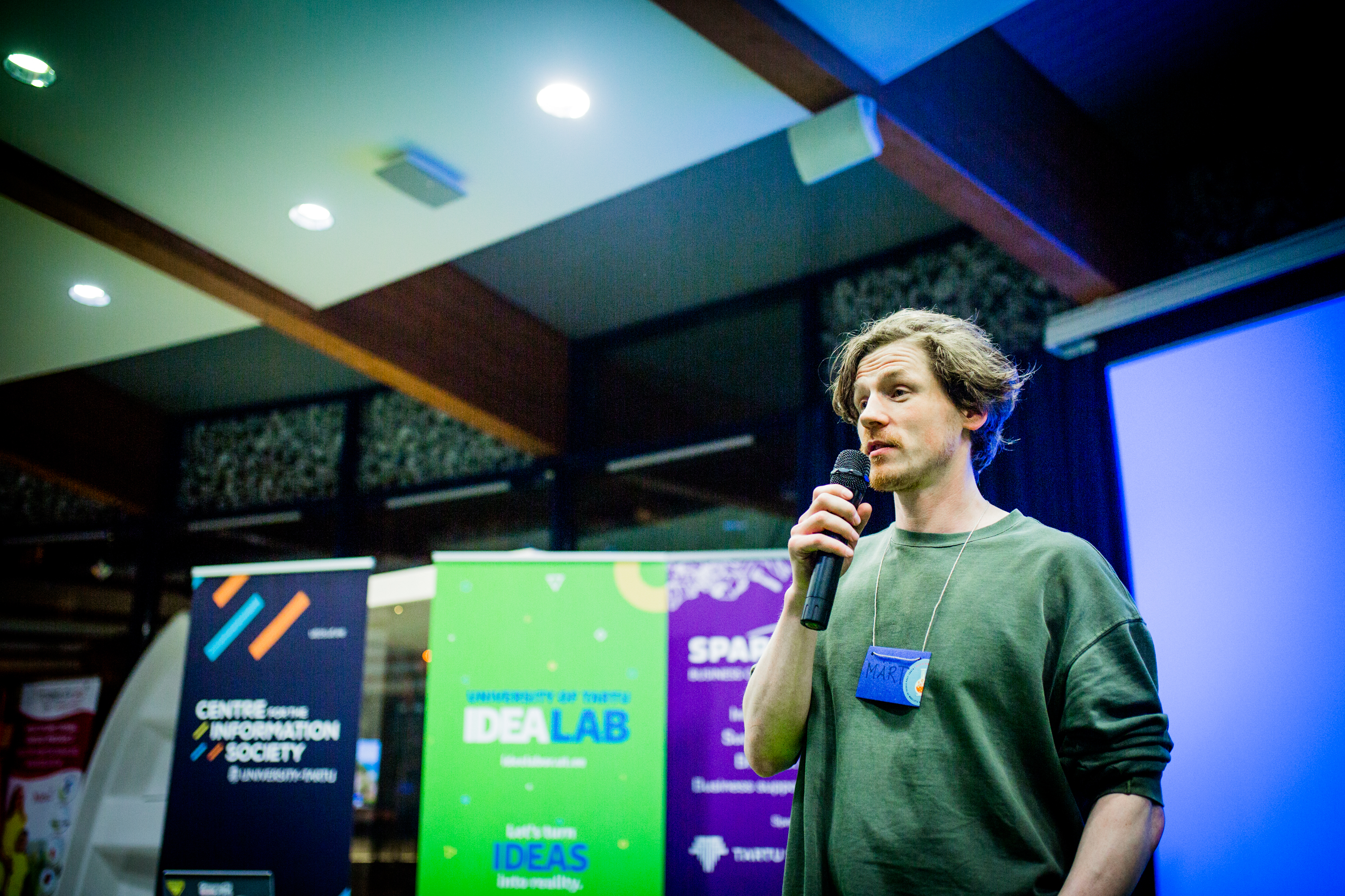 Data as Remedy 24h Post-Truth hackathon in Tartu, Estonia